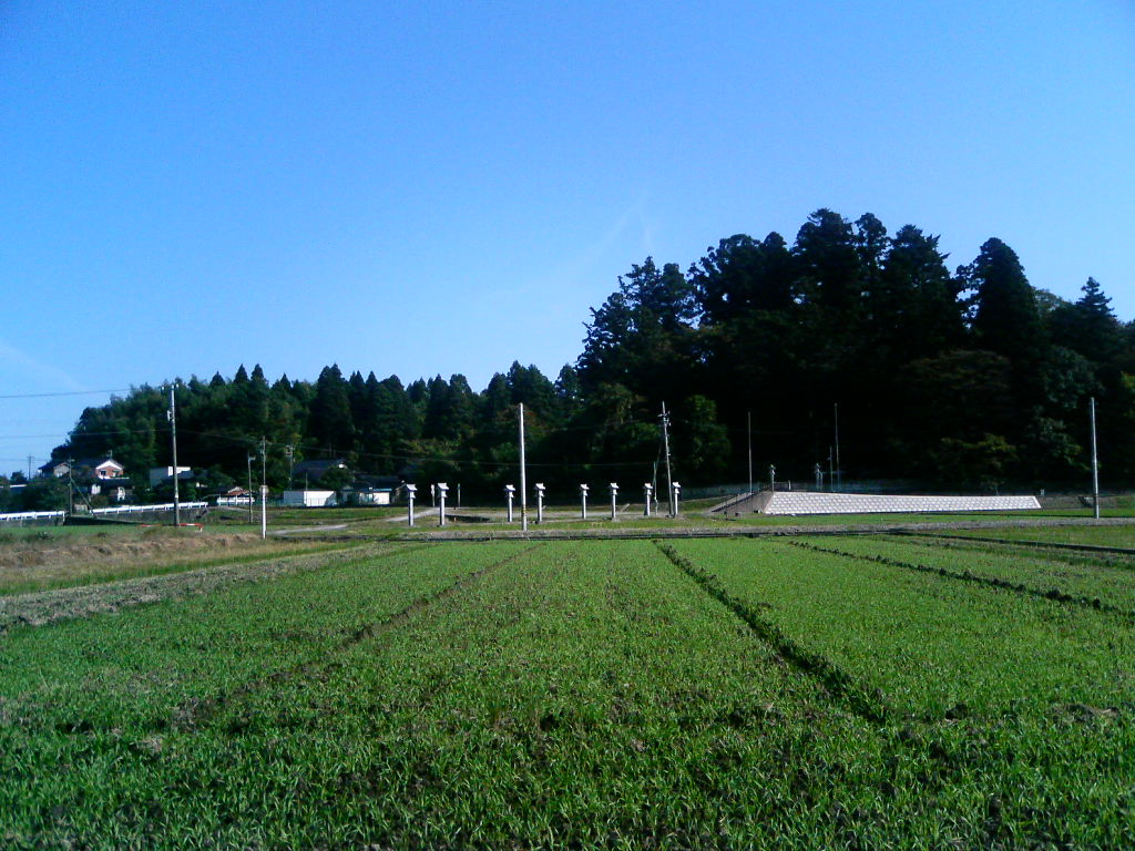 Hinomiya-castle(Toyama-Japan)